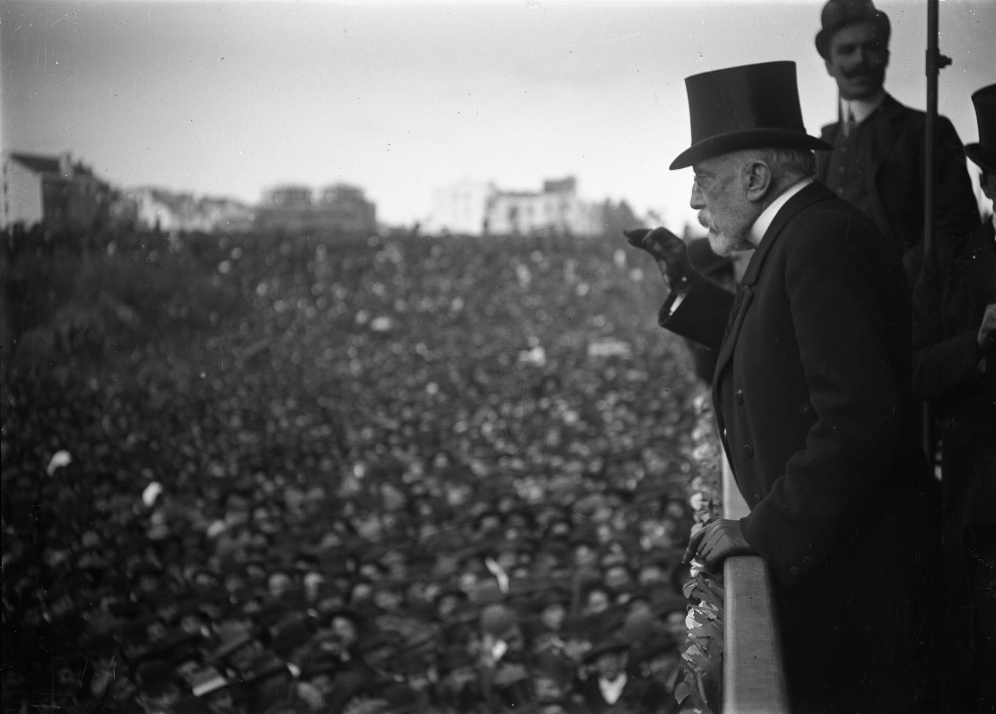 Augusto José da Cunha, of His Most Faithful Majesty's Council, in a political rally in Lisbon, 1908.